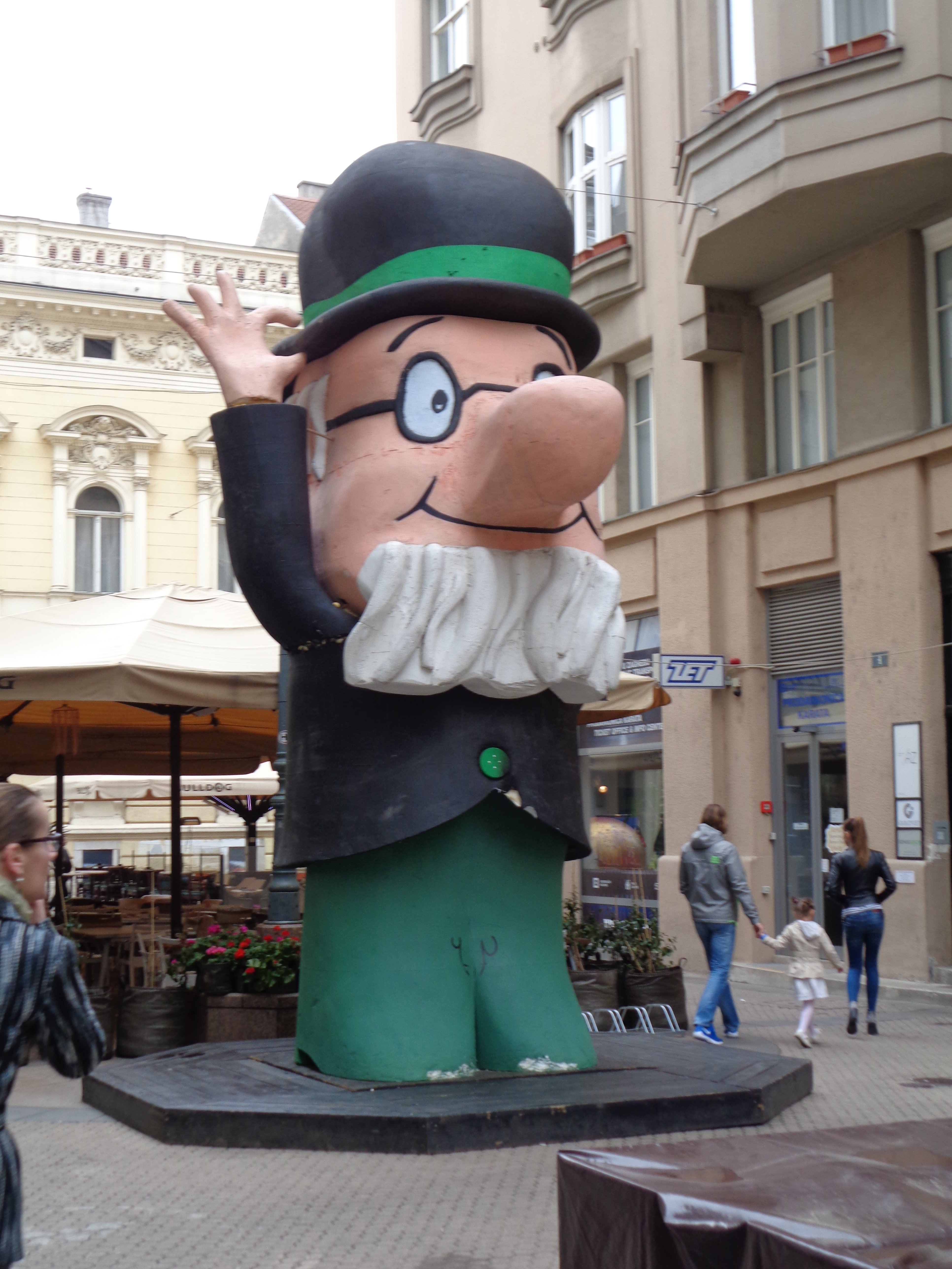 Professor Balthasar, animated films' hero, giant model in Zagreb, Croatia